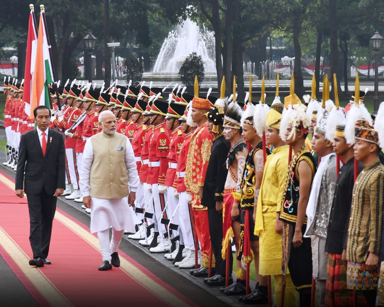 Indian Prime Minister Narendra Modi receives a guard of honor during a state visit to Indonesia.